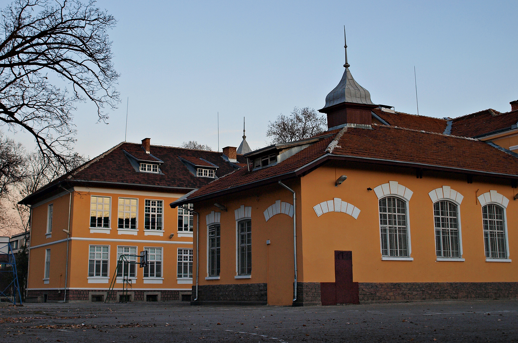 The Georgi Sava Rakovski 120th School of General Education, Sofia, Bulgaria